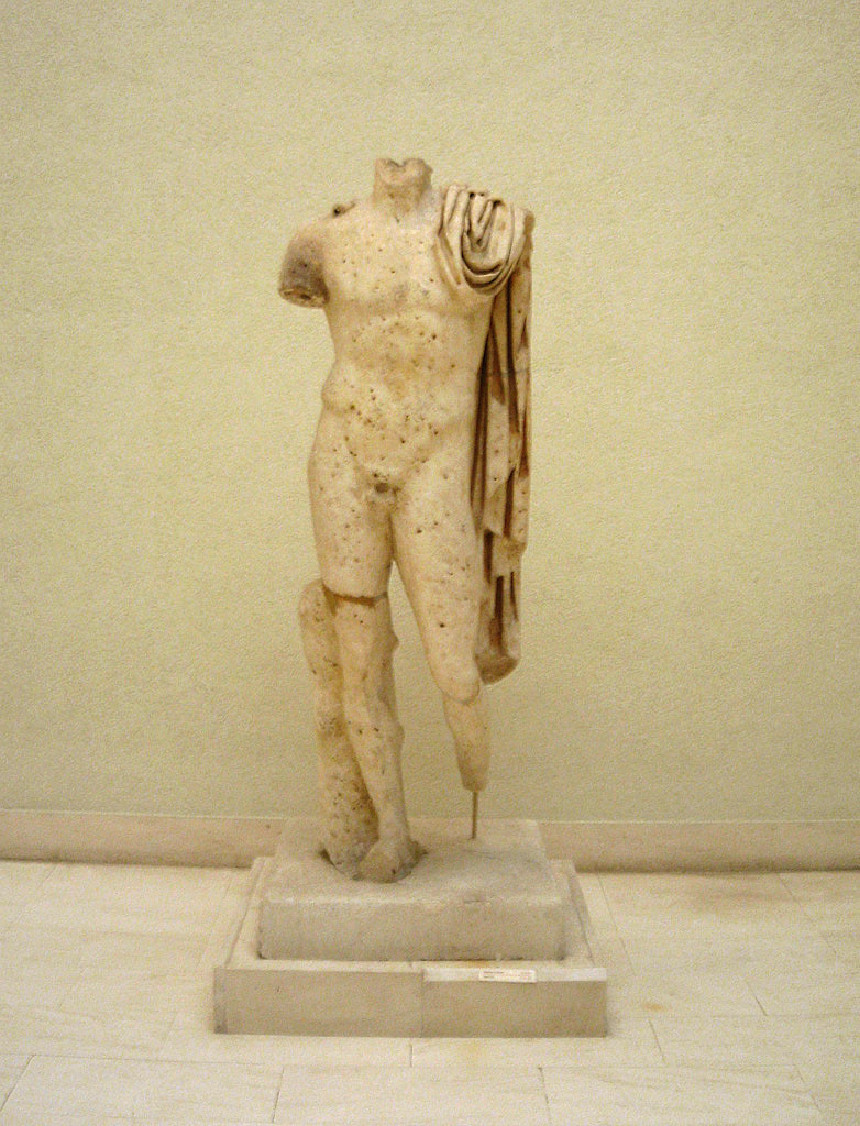 Ancient Roman statue in Cadiz, Spain